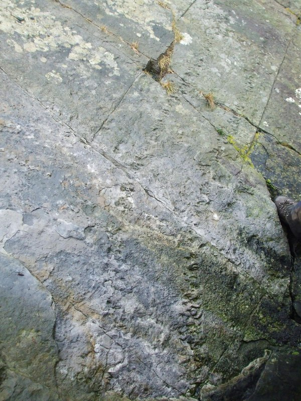 Fossil trackway of a large Myriapod, presumably Arthropleura, on the bedding plane of a Namurian (early Late Carboniferous) sandstone, NE coast of Isle of Arran, 4 km from Lochranza, North Ayrshire, Great Britain. This trail is the type specimen of the ichnospecies Diplichnites cuithensis.[1]. ↑ D. E. G. Briggs, W. D. I. Rolfe, J. Brannan: A Giant Myriapod Trail from the Namurian of Arran, Scotland. Paleontology, Vol. 22, Pt. 2, pp. 273-291